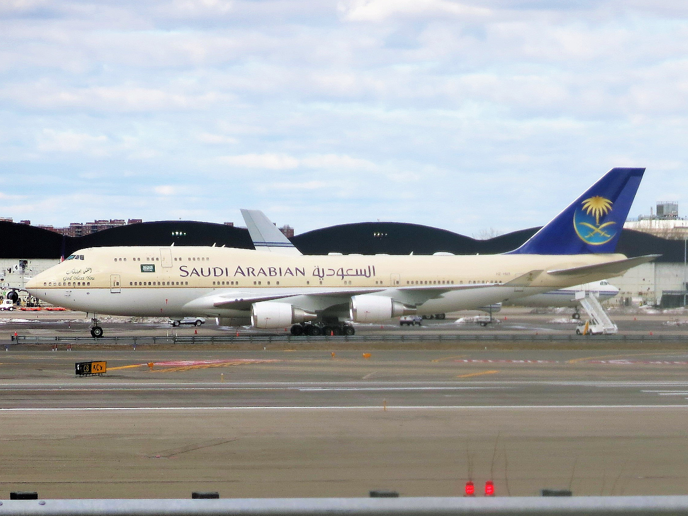 A Saudia Boeing 747-400, specially configured for official use by the eliminations of doors L2, L3, R2, and R3, is parked at John F. Kennedy International Airport for an official visit. Parked directly behind the 747 is a Saudi Royal Flight Airbus A340-200.